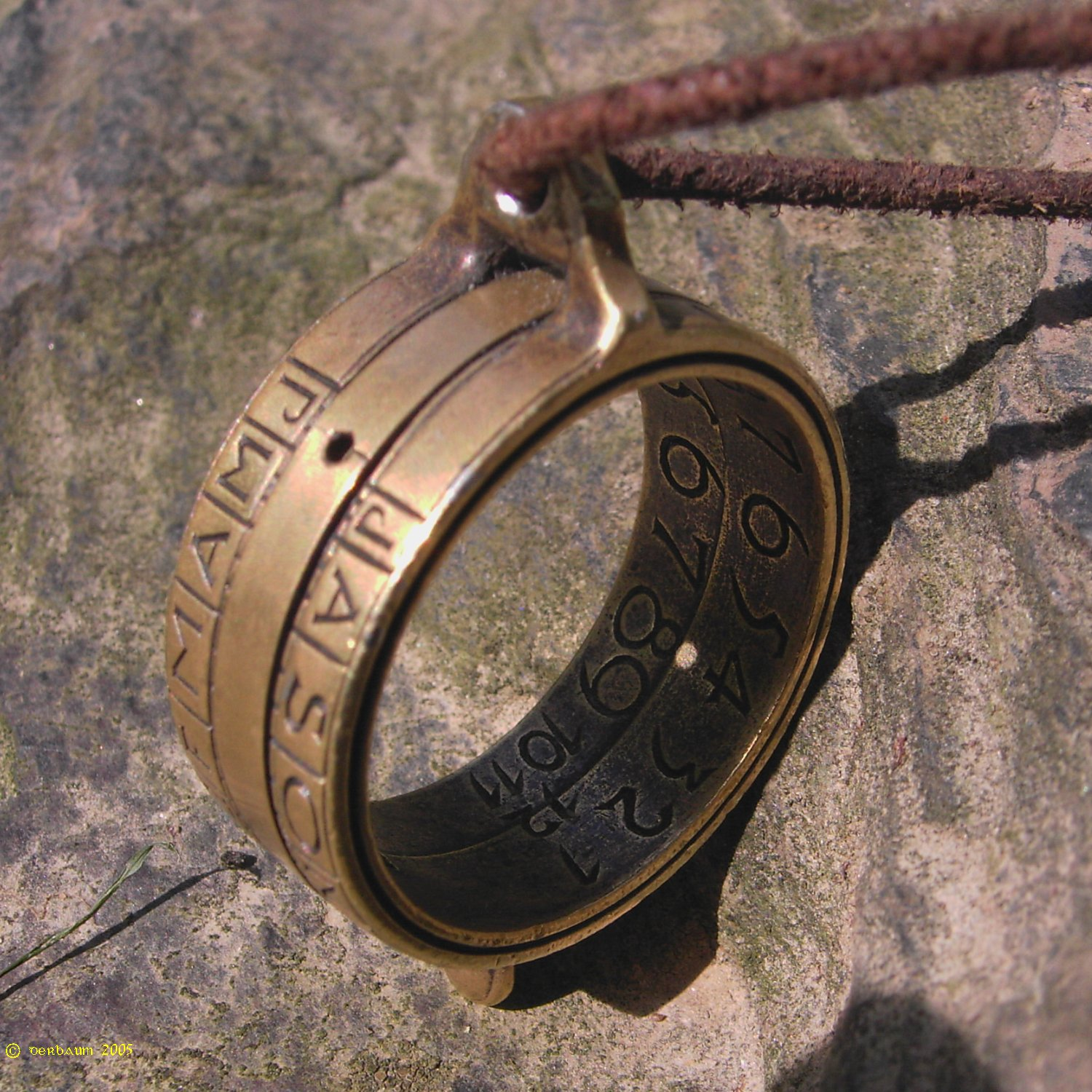 Solar watch. Replica of a 1721 object.